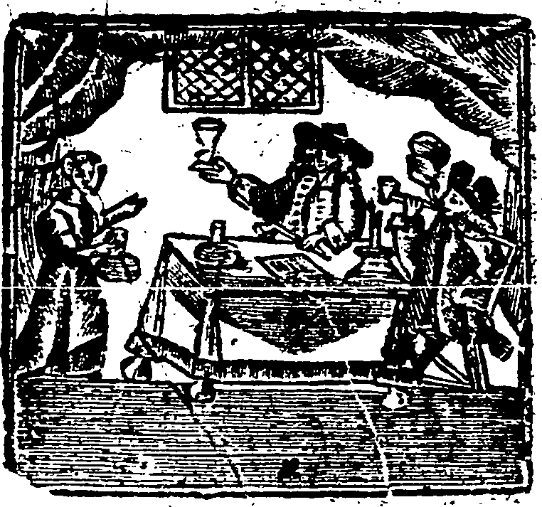 Fleuron from book: The Irish drinking song. Written and sung by Mr. Dibdin.